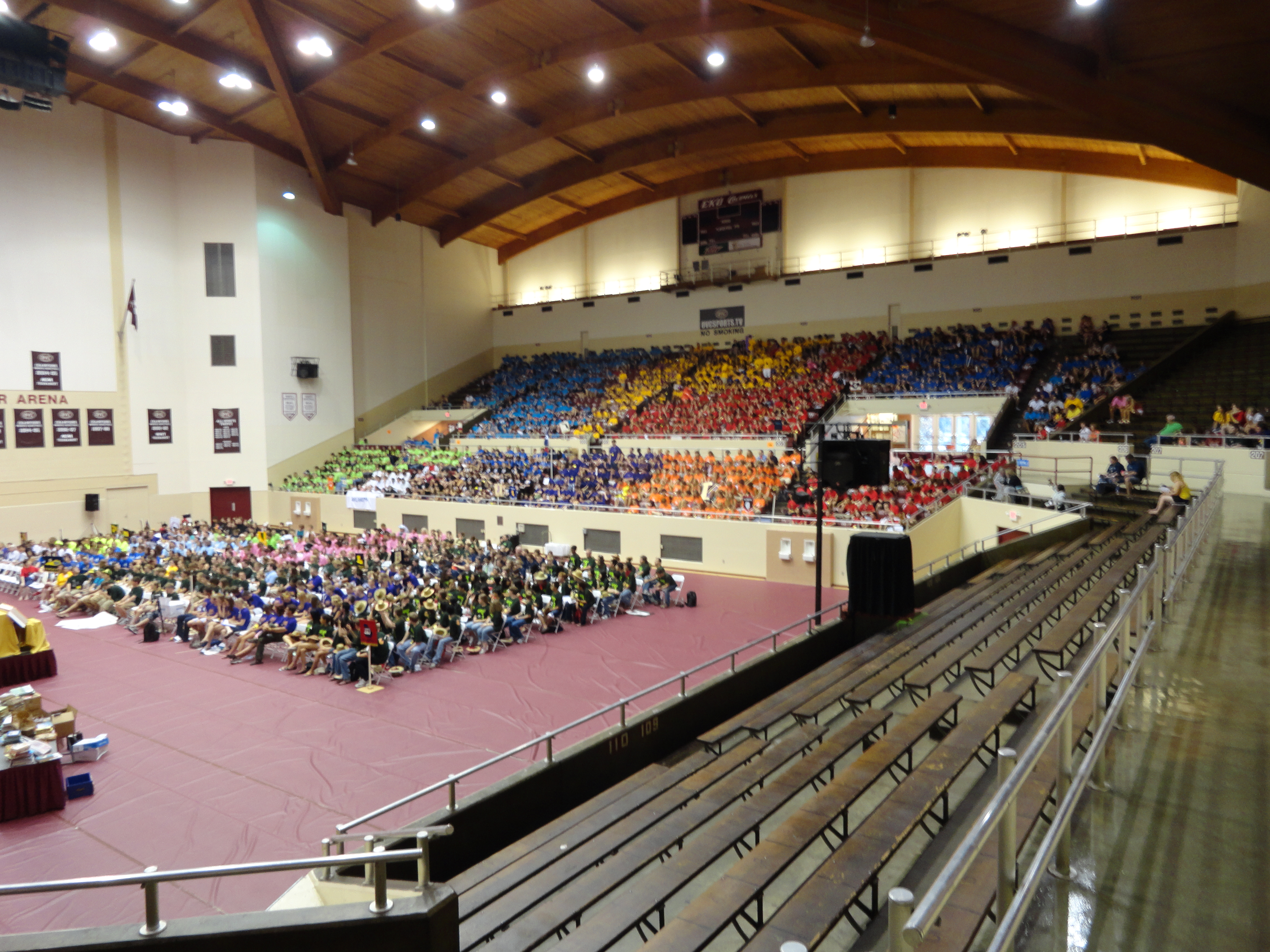 A rally for the National Junior Classical League National Convention at Eastern Kentucky University.